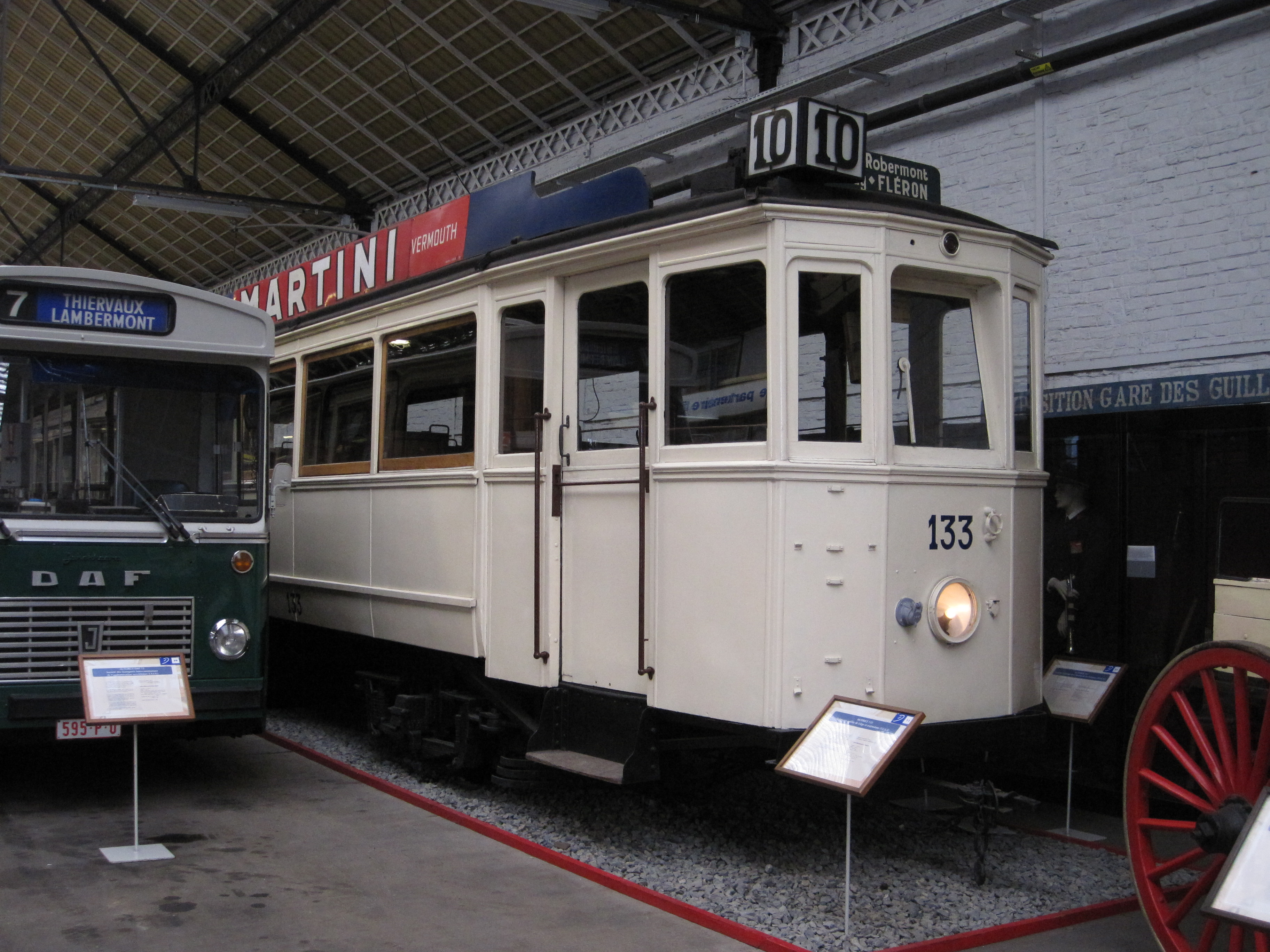 TULE Motrice 133